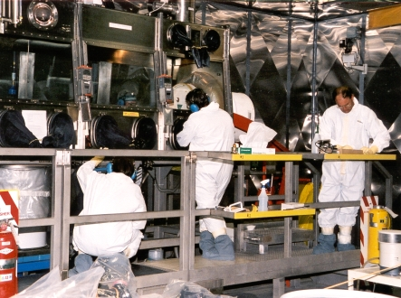 Workers use a glovebox in the Visual Examination and Repackaging Building (VERB) to sort the contents of a drum containing legacy transuranic waste to remove prohibited items and repackage in an overpack drum for disposal at the WIPP near Carlsbad, NM.